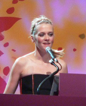 Edith Bowman presenting at the Digital Music Awards at The Roundhouse in Camden.